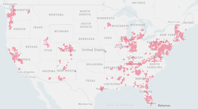 Map of the continental United States with zip codes offering internet coverage from Comcast/Xfinity shaded in red.